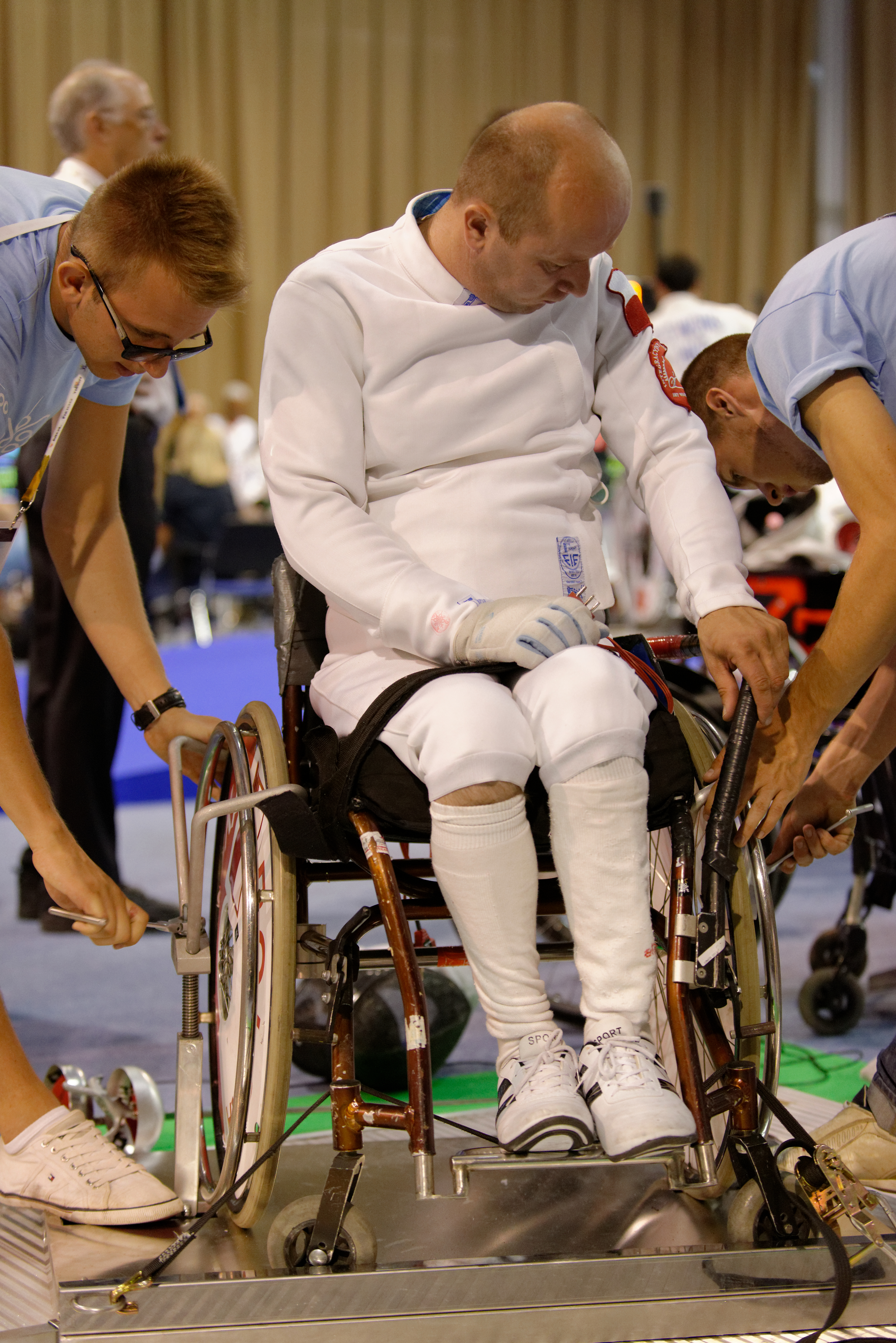 Men's épée A event in the 2013 IWAS World Wheelchair Fencing Championship at Syma Hall in Budapest on 8 August 2013.